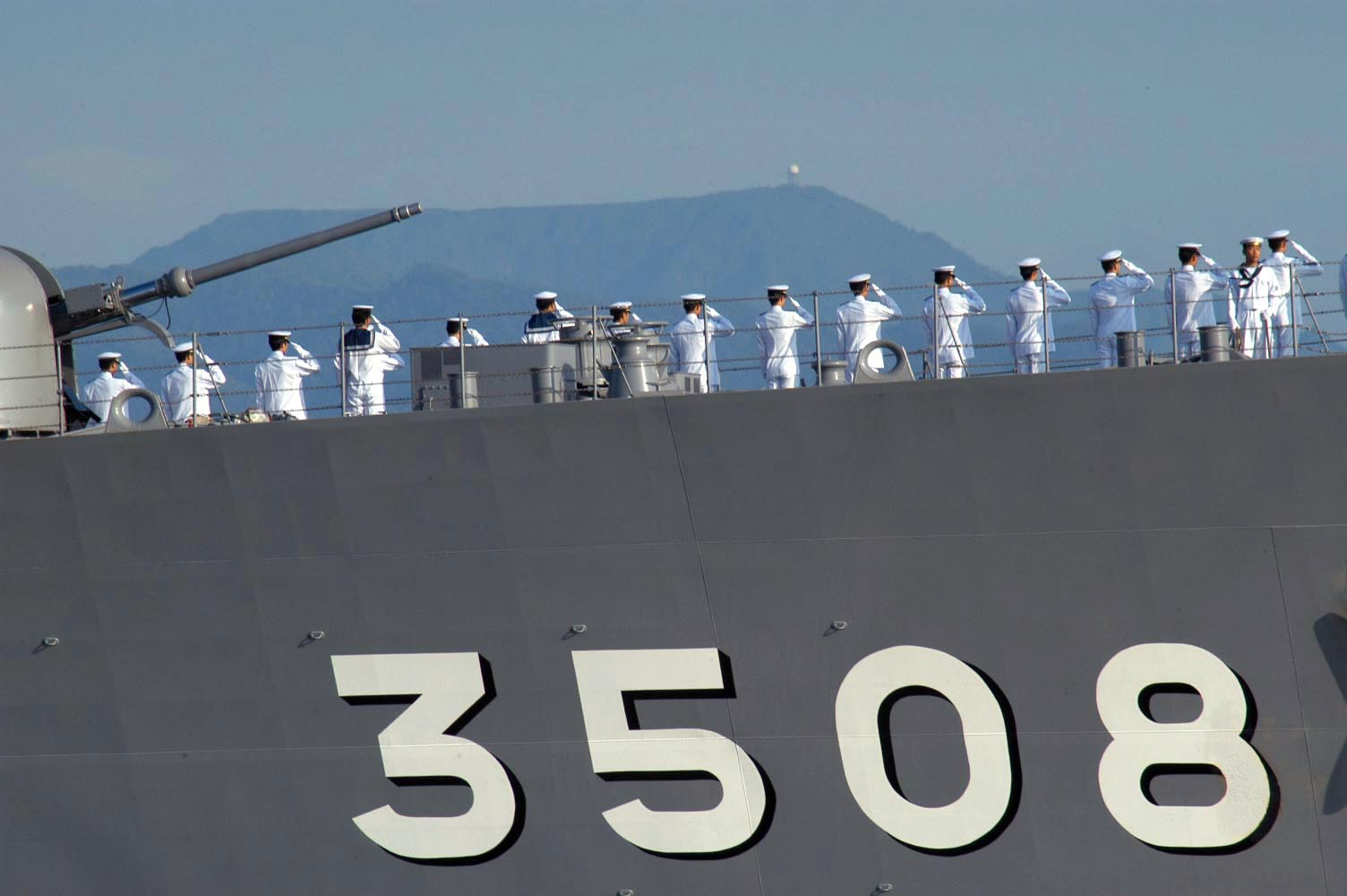 Pearl Harbor, Hawaii (May 3, 2005) - Japanese Sailors man the rails as the Japanese Navy training ship JDS Kashima (TV 3508) pulls into Pearl Harbor, Hawaii. The purpose of this visit is to develop the seamanship and leadership skills of Japan's future leaders, as well as broadening the mutual understanding and friendship between the United States and Japan. U.S. Navy photo by Photographer's Mate 3rd Class Victoria A. Tullock (RELEASED)